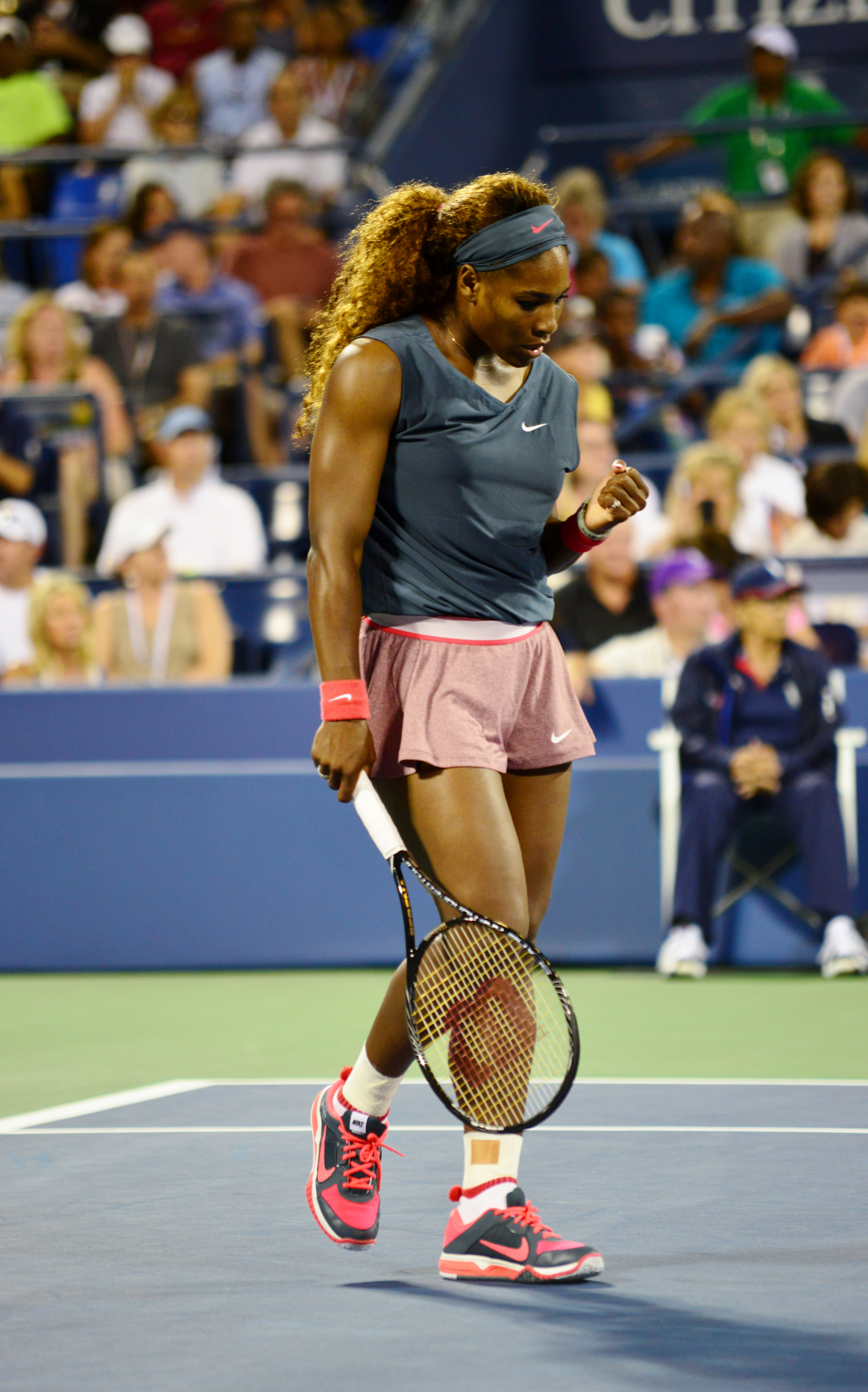 1st round doubles action from the Women's draw at the 2013 US Open. Serena and Venus Williams defeated Silvia Soler-Espinosa and Carla Suarez Navarro; 6-7(5), 6-0, 6-3